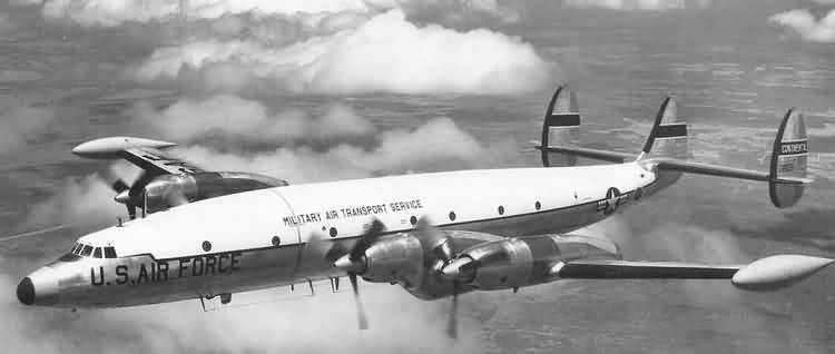 A picture of a YC-121F (L-1249A) in flight.